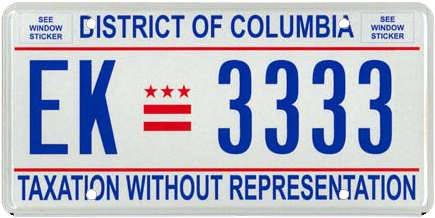 Photograph of a 2013 license plate from District of Columbia (USA)